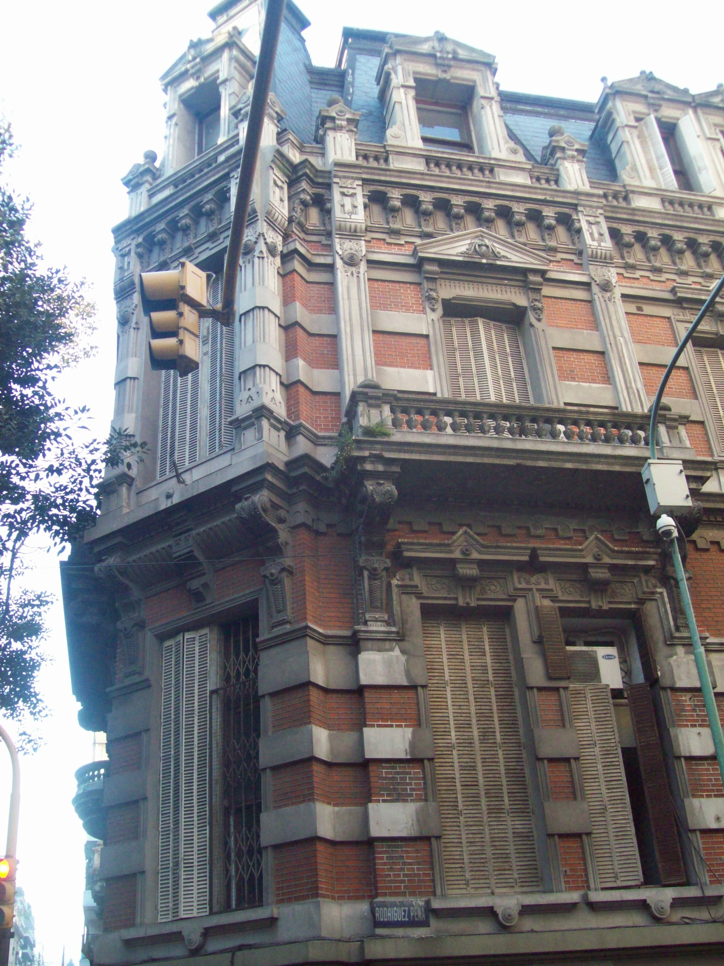 The Argentine Secretariat of Culture. Designed by Carlos Ryder as the Casey residence and built in 1889, the building is located on the corner of Alvear and Rodríguez Peña streets in the Recoleta section of Buenos Aires.